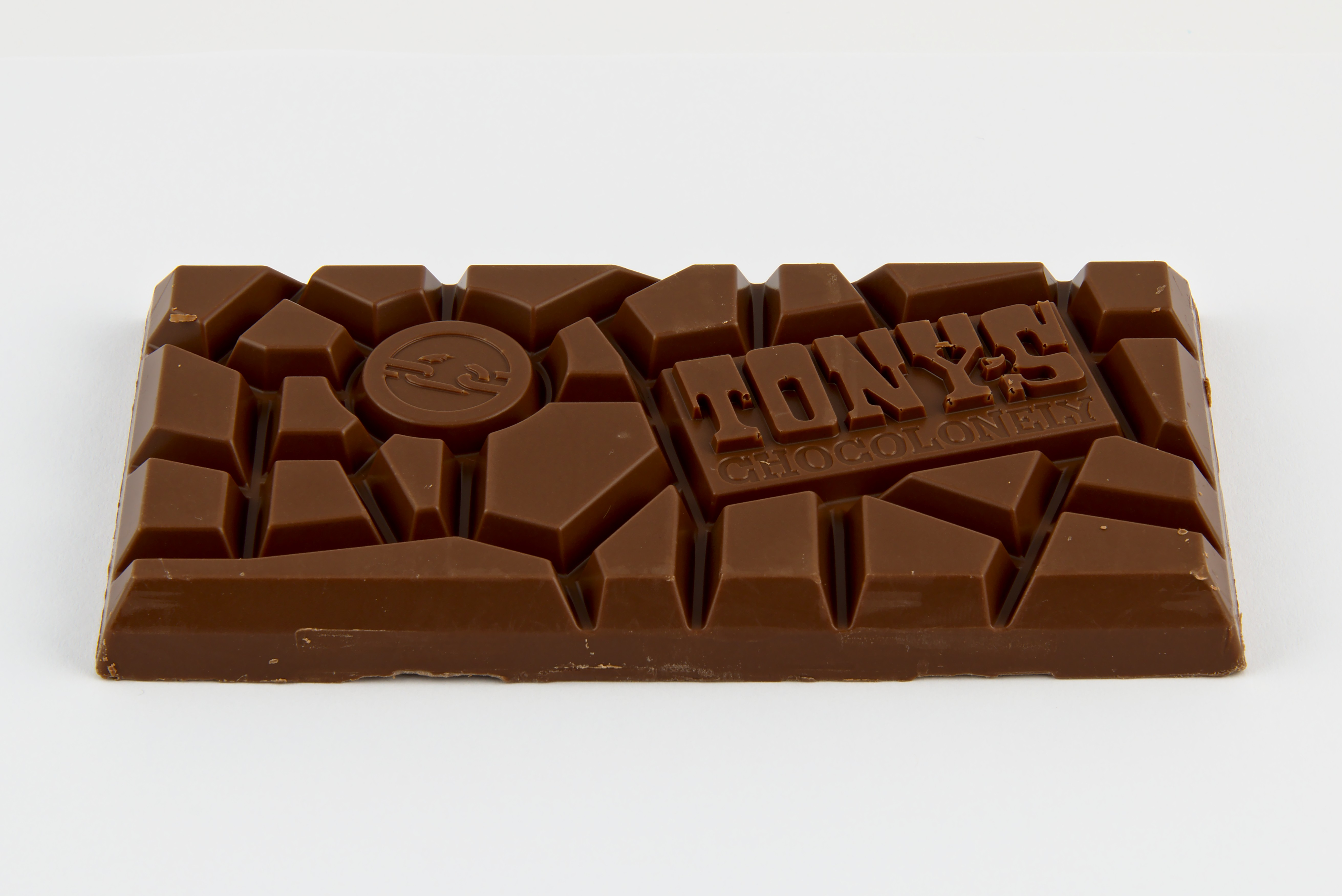 A bar of Tony's Chocolonely milk chocolate, a fair-trade chocolate brand from the Netherlands.